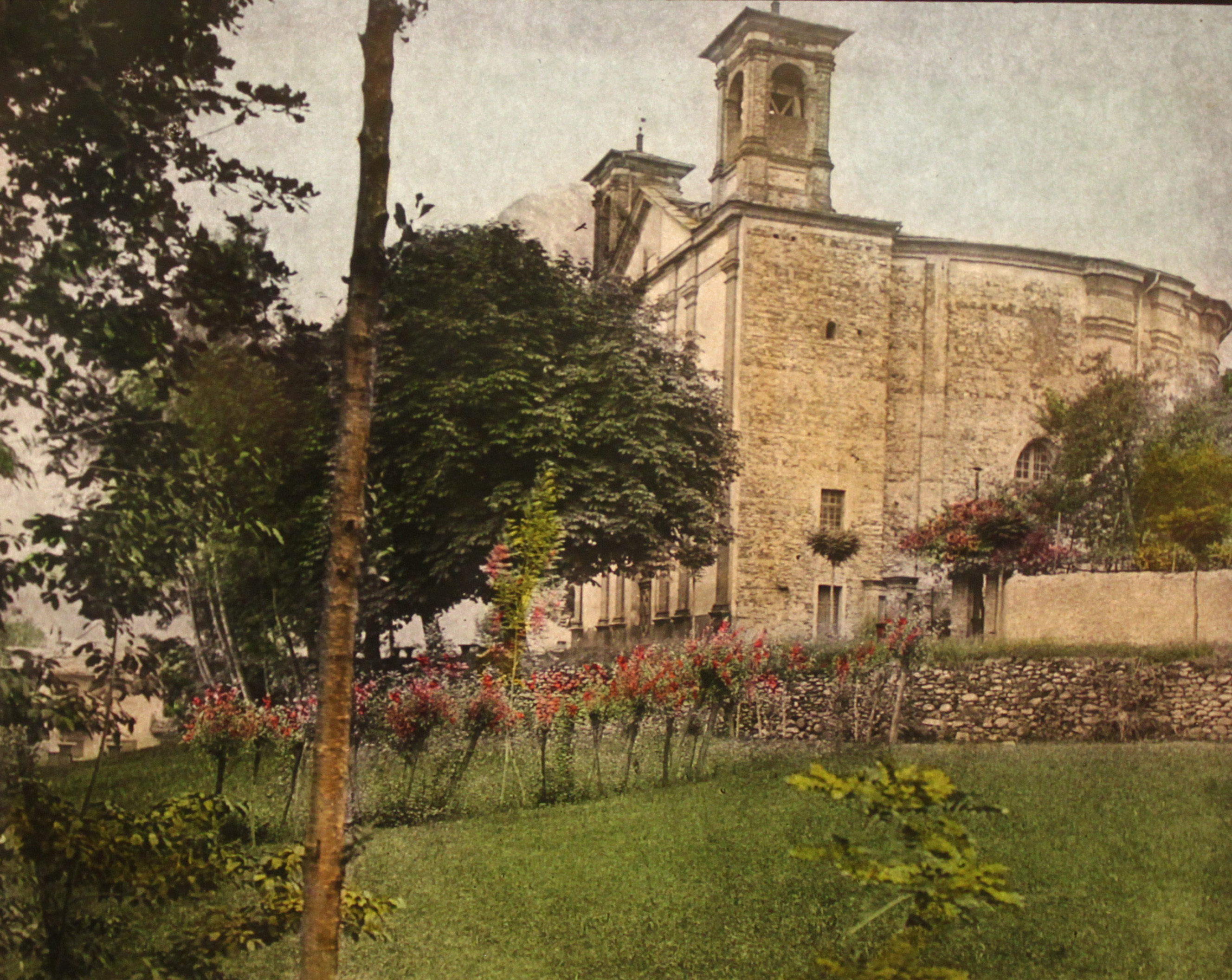 In the Waldensian Valleys, Italy. @1895. Keystone Glass Slide. L-2180- Church in San Giovanni